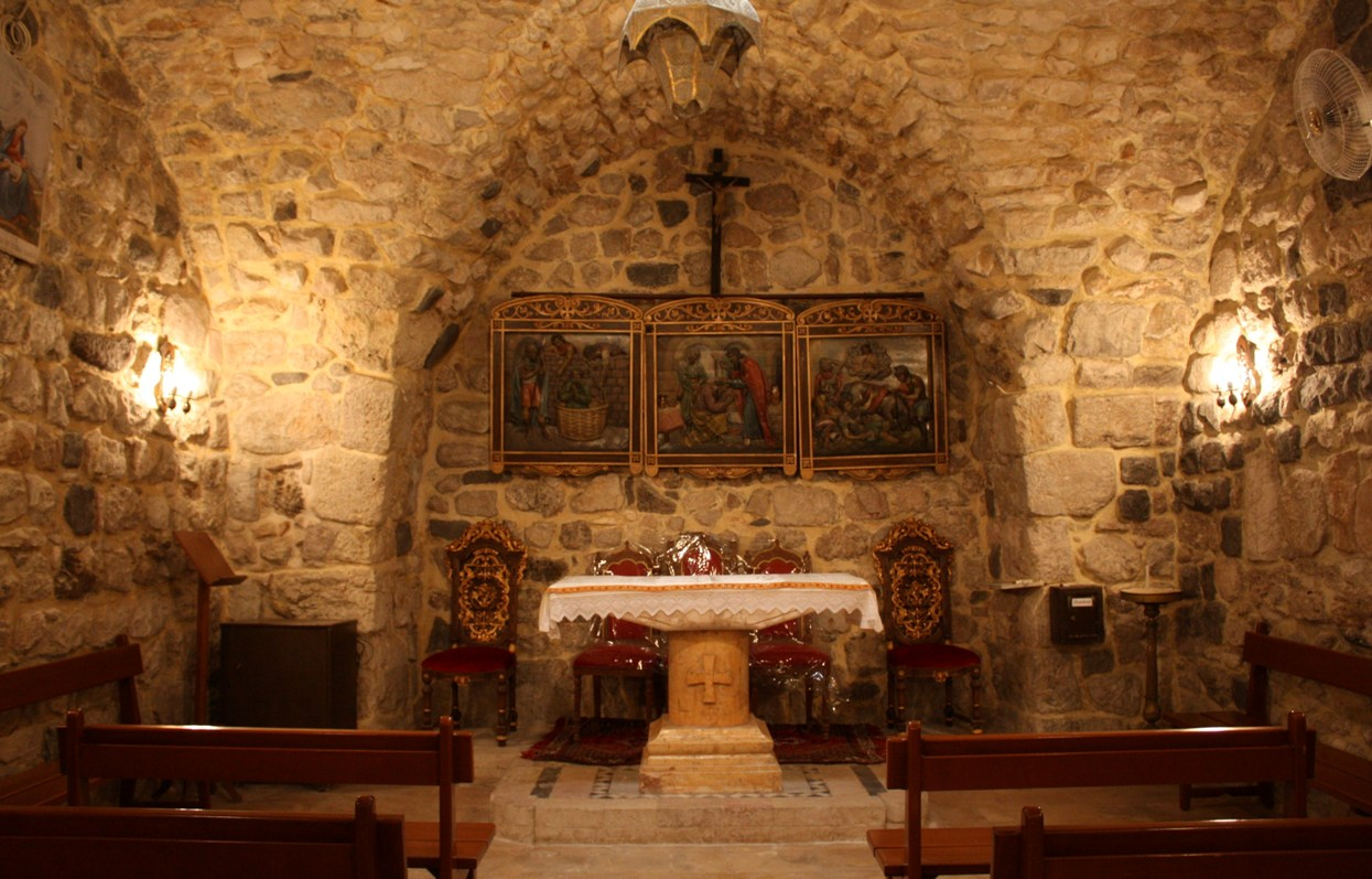 House of Saint Ananias.